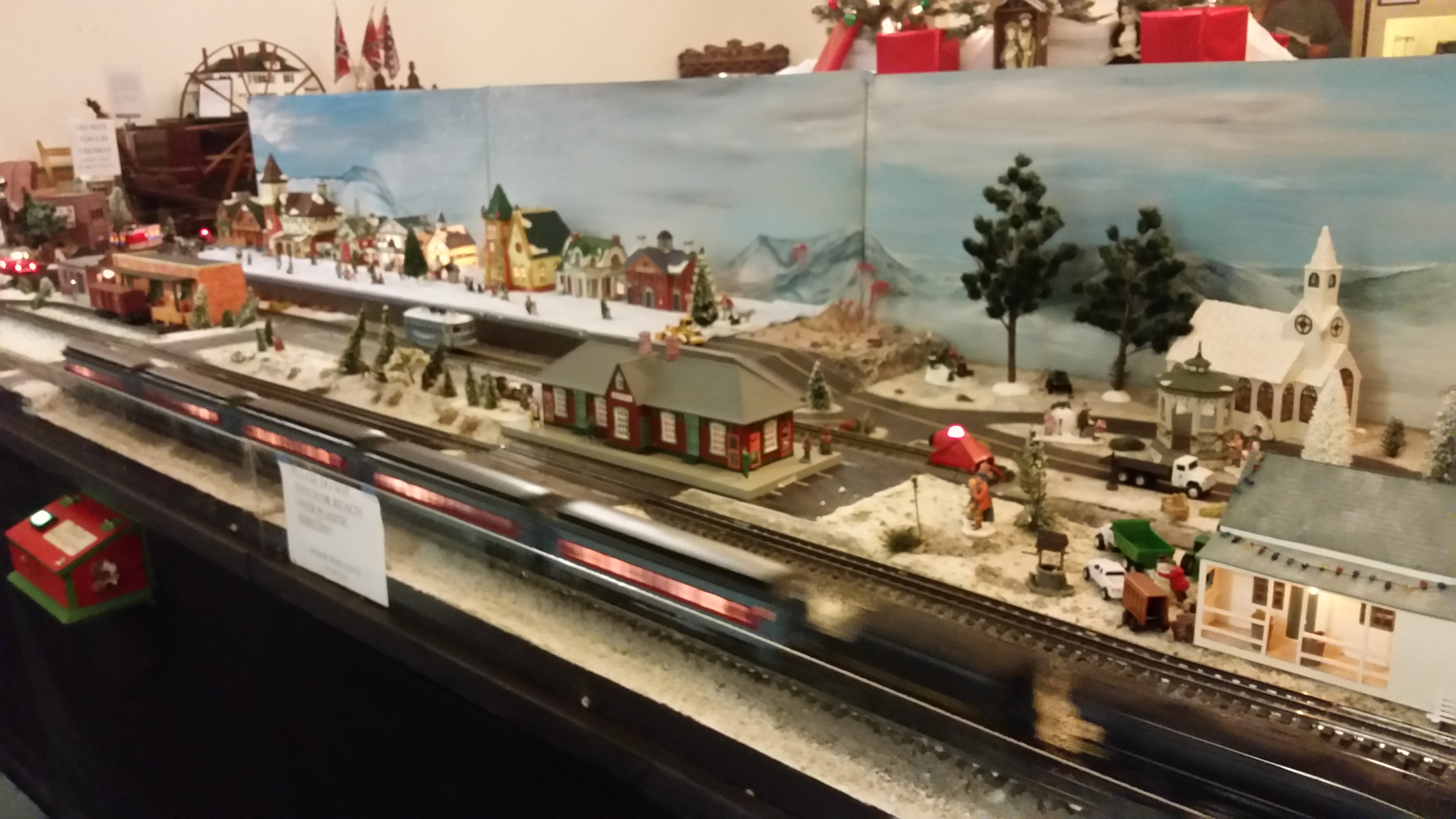 The Polar Express goes in front of the little Village, Bedford Museum & Genealogical Library, Bedford, Virginia, U.S.